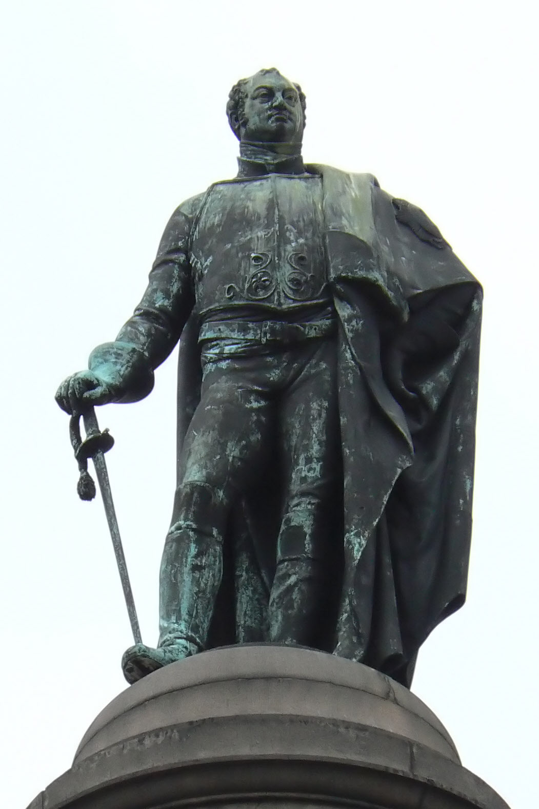 Statue with plaque saying: "Frederick Duke of York, 1763-1827, second son of George III, Commander-in-Chief of the British Army 1795-1809 and 1811-1827". The statue is in Waterloo Place, London SW1.